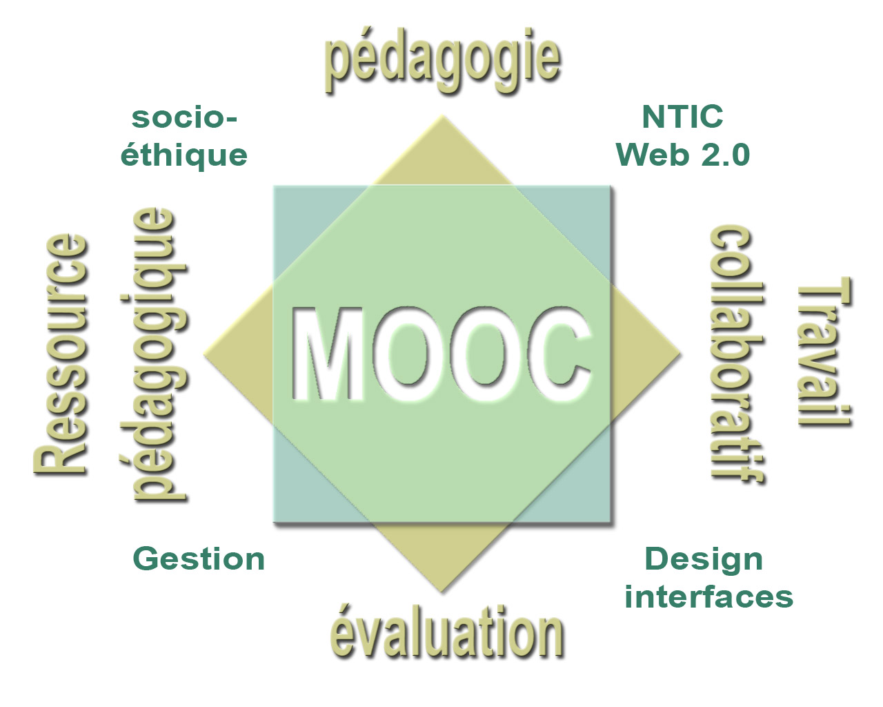 Diagram showing a MOOC in eight key-concepts (in french) ; "yellow" for the pedagogical relationship and "blue" for the techno-organizational and ethical framework supporting the MOOC... here for a MOOC with a confirmed collaborative dimension (eg through the use of wikis allowing students to improve each year resources and educational materials available to all, on large wikis wikimedia foundation for example). The ethical dimension is to be understood in the broadest sense of the aspects of sharing, less environmental impact and carbon / climate impacts, through a more personalized support for students, etc.. if ... the MOOC is also thought to that.